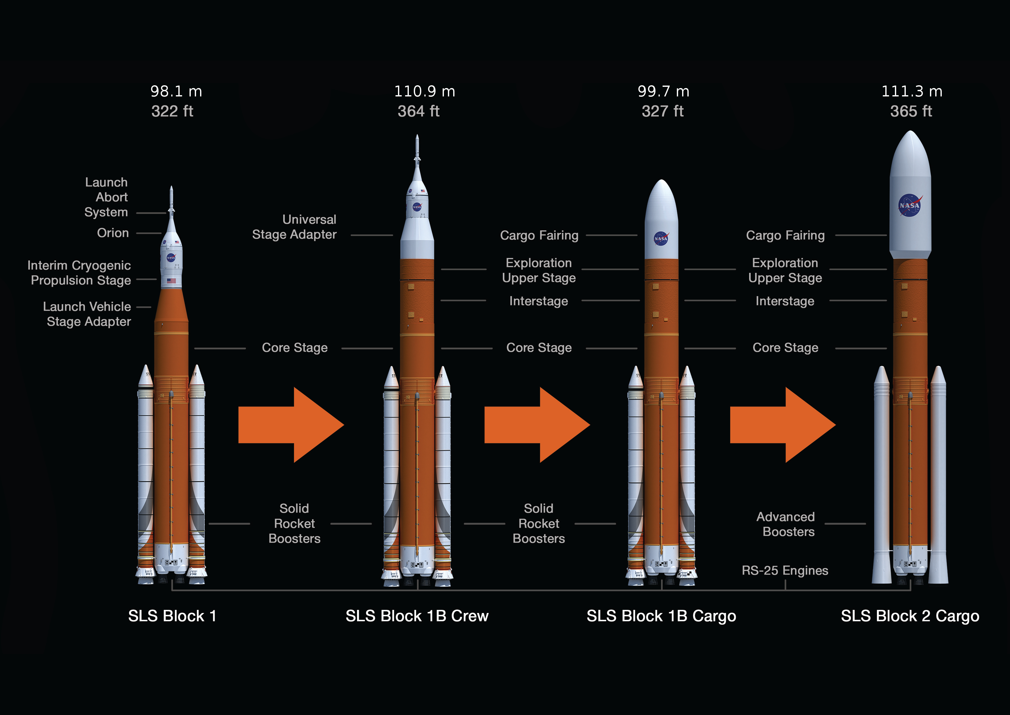 An image showing the proposed evolution of NASA's Space Launch System rocket, in its October 2015 configuration.